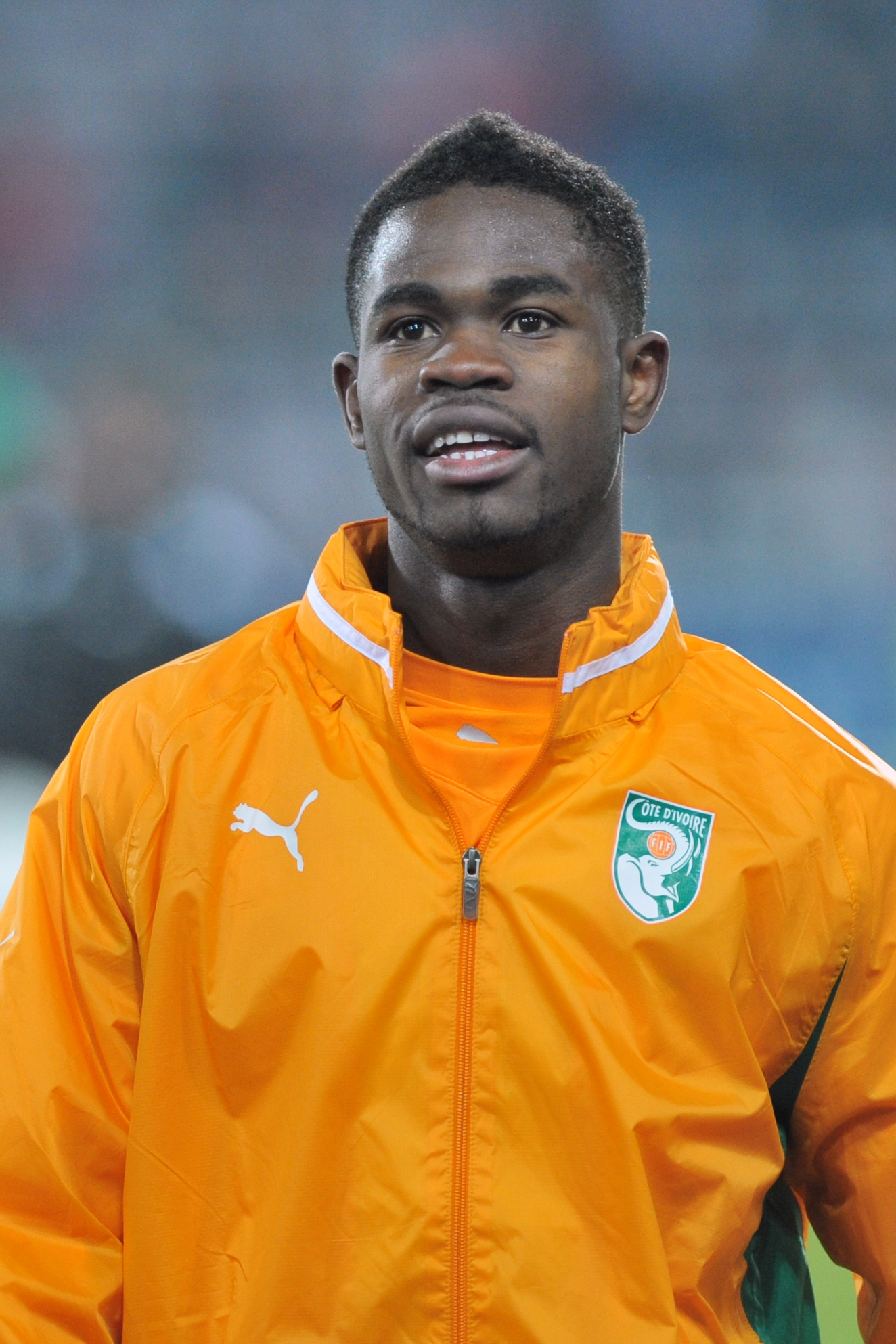 ÖFB freundschaftliches Länderspiel - Österreich vs Elfenbeinküste am 14. November 2012 The making of this work was supported by Wikimedia Austria. For other files made with the support of Wikimedia Austria, please see the category Supported by Wikimedia Österreich. Elfenbeinküste Nr. 7: Abdul Razak